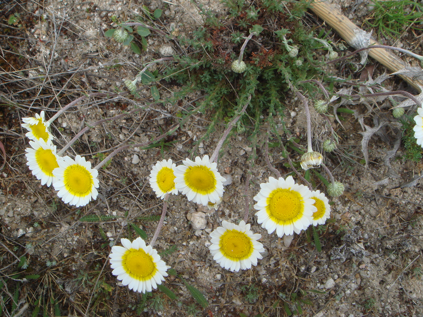 Leucanthemopsis pulverulenta, La Torre (Ávila), Spain.